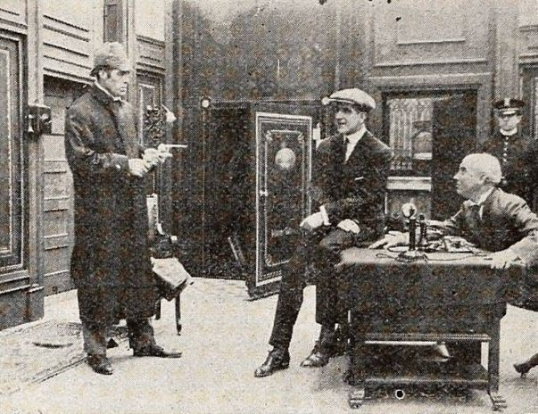 Still from the American crime drama film The Burglar and the Lady (1914) with James J. Corbett as a gentleman crook called Raffles, on page 136 of the April 1916 Cine-Mundial (American Spanish language magazine).